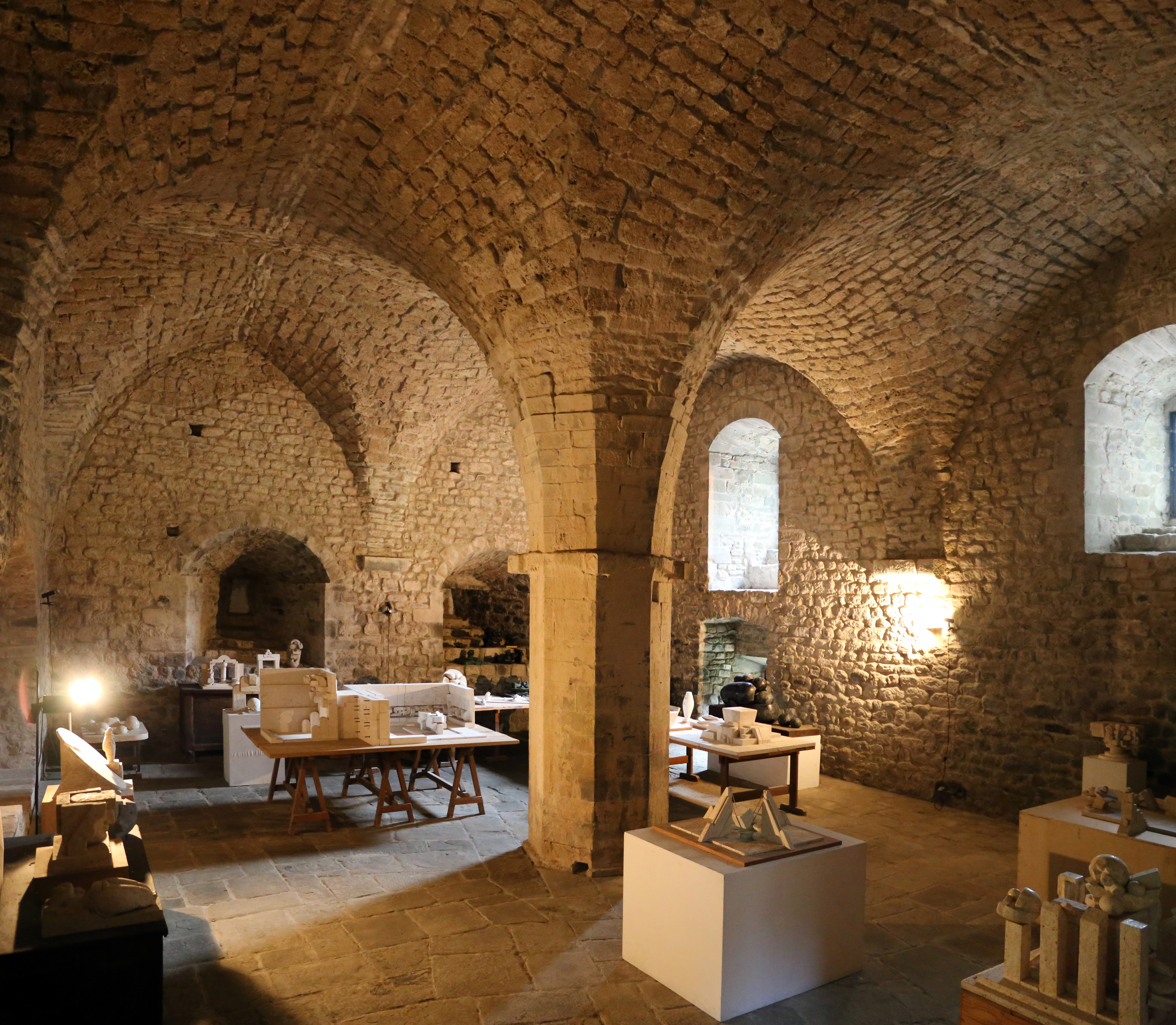 Fortezza della Verrucola (Fivizzano)